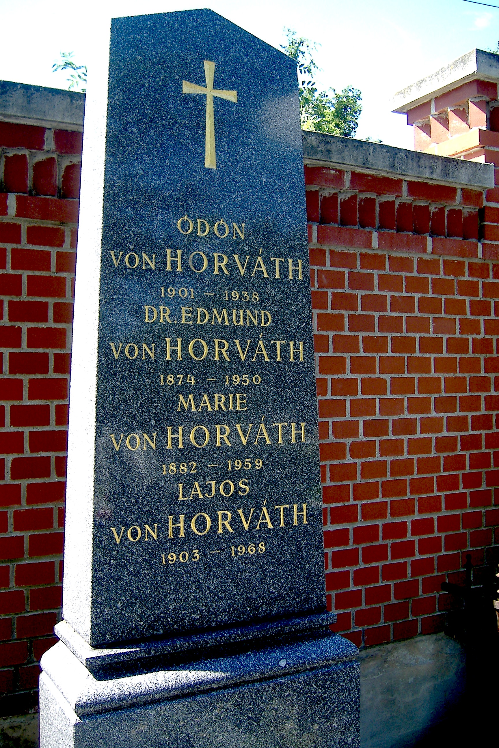 Tombstone of Ödön von Horvath, his parents and his brother. Heiligenstädter Friedhof (cemetery), 19th District, Vienna, Austria